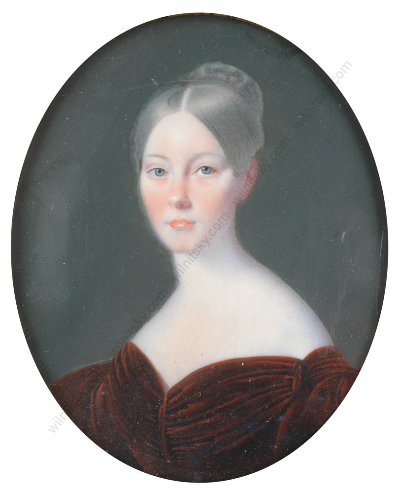 Miniature on ivory with portrait of the 20 years old Contralto opera singer Mary Shaw Postans (1814 - 1876). The miniature was painted in Naples in march1834 and dedicated to her future husband the english painter Alfred Shaw